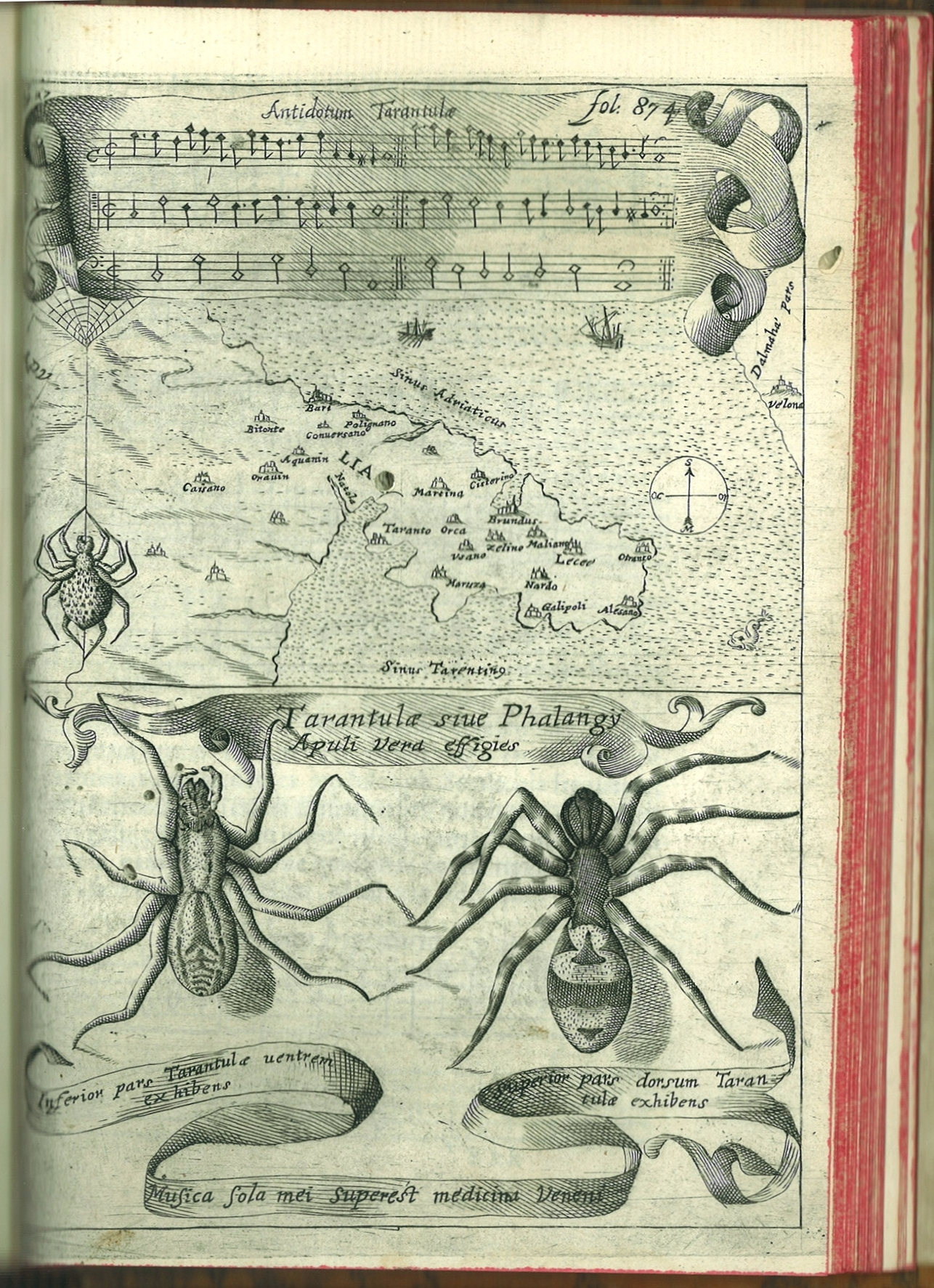 Page from Magnes sive de arte magnetica opus tripartitum by Athanasius Kircher. The book contains a long chapter about the "magnetism of music" dealing with the powers of the Tarantella as antidote against tarantula venom.